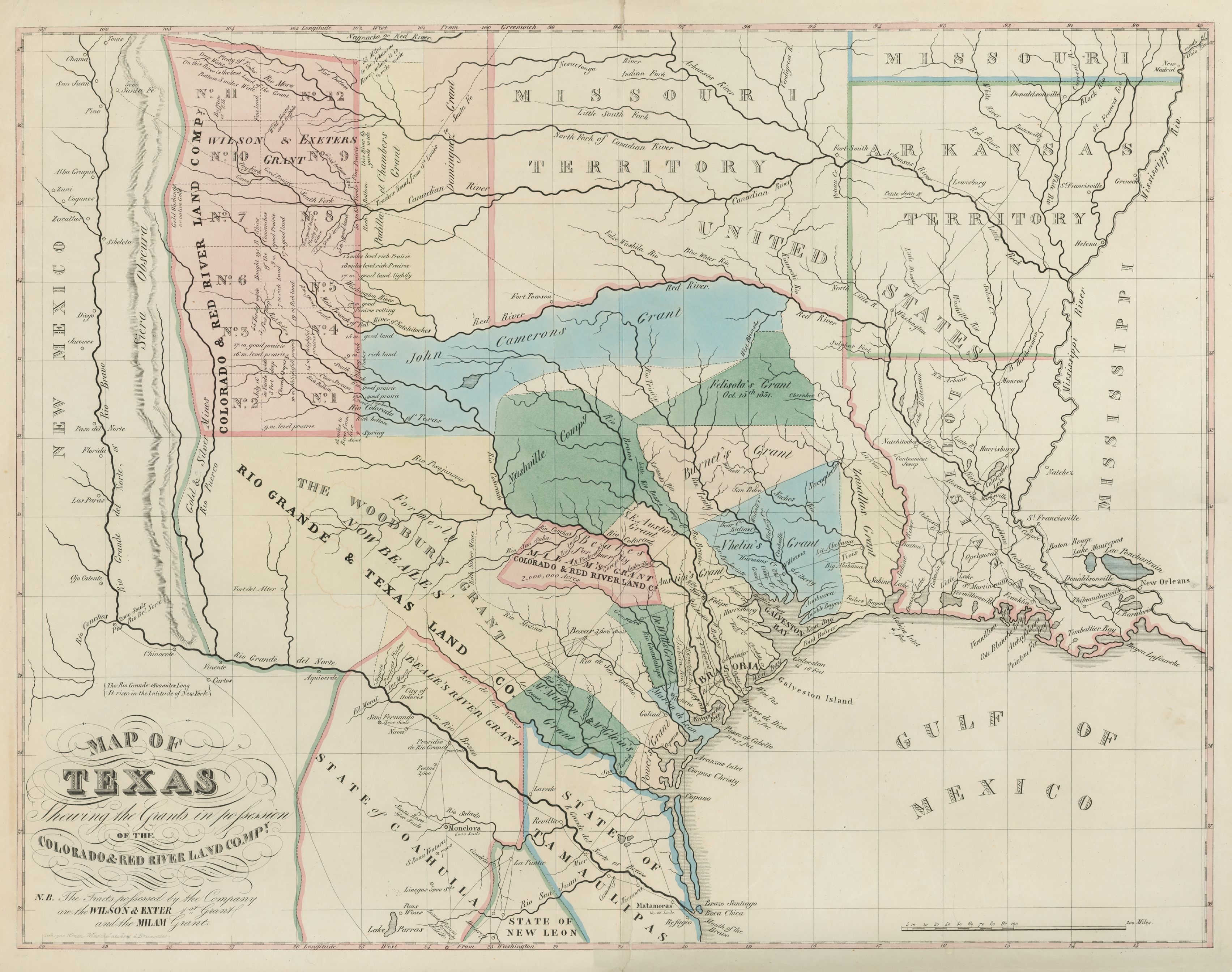 The Colorado and Red River Land Company of New York and Texas issued this map and stock certificate relating to its vast lands in Texas. The company had tenuous claims to the lands through the Mexican government's grants to the English-born empresario Dr. John Charles Beales (1804-1878), whose signature appears on the stock certificate. The company's lands from Wilson & Exeter's Grant appear in pink at the upper left of the larger map. The numerous notations about the quality of the land derive from the 1827 survey by Alexander LeGrand, who was employed by Wilson and Exeter. Not surprisingly, the only comment about the Native Americans already there is in fine print ("Bought 191 B[uffalo] skins of the Comanches") and seems to imply they would also be friendly to settlers and land speculators (!). Also in pink in the center of this map are the company's lands from Milam's Grant between the Colorado and Guadalupe Rivers. Just west are lands acquired by Beales from the former empresario land grant of Lucius Woodbury and sold to the Rio Grand & Texas Land Company. Just south of these lands, between the Nueces and the Rio Grande, is Beale's [sic, Beales'] River Grant. This is outlined in pink along with the rest of the state of Coahuila. Along Las Moras Creek within Beales' River Grant is the town of Dolores, named for Beales' wife.